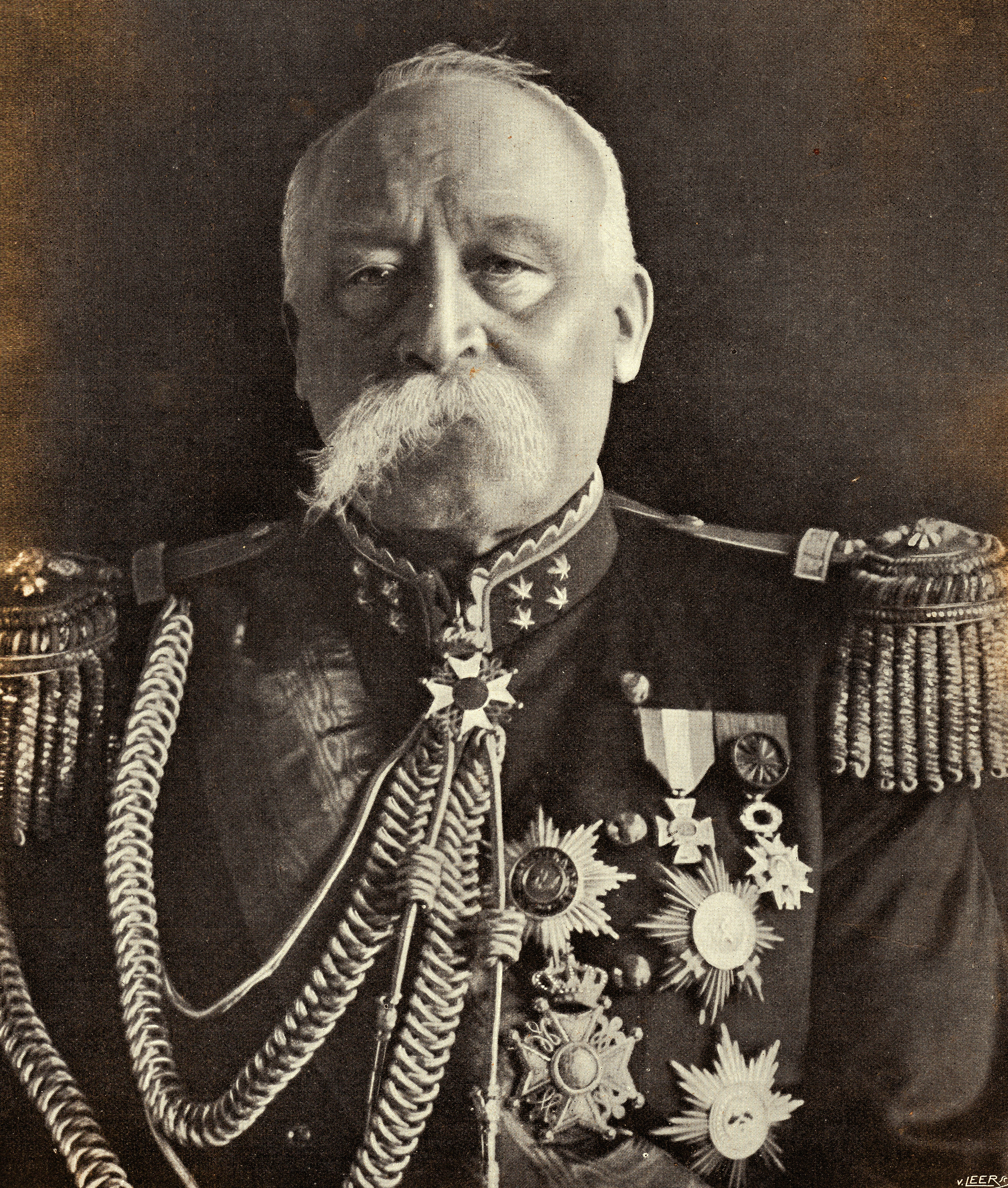 Generaal A. Kool